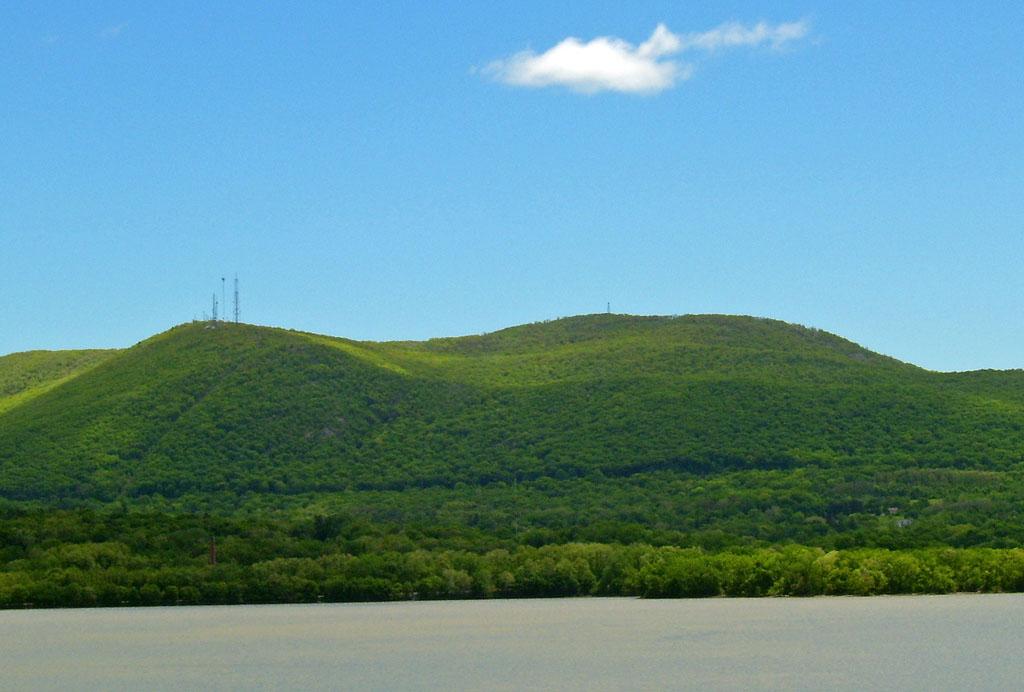 Beacon Mountain, as seen near the east end of Broadway in Newburgh, New York, USA